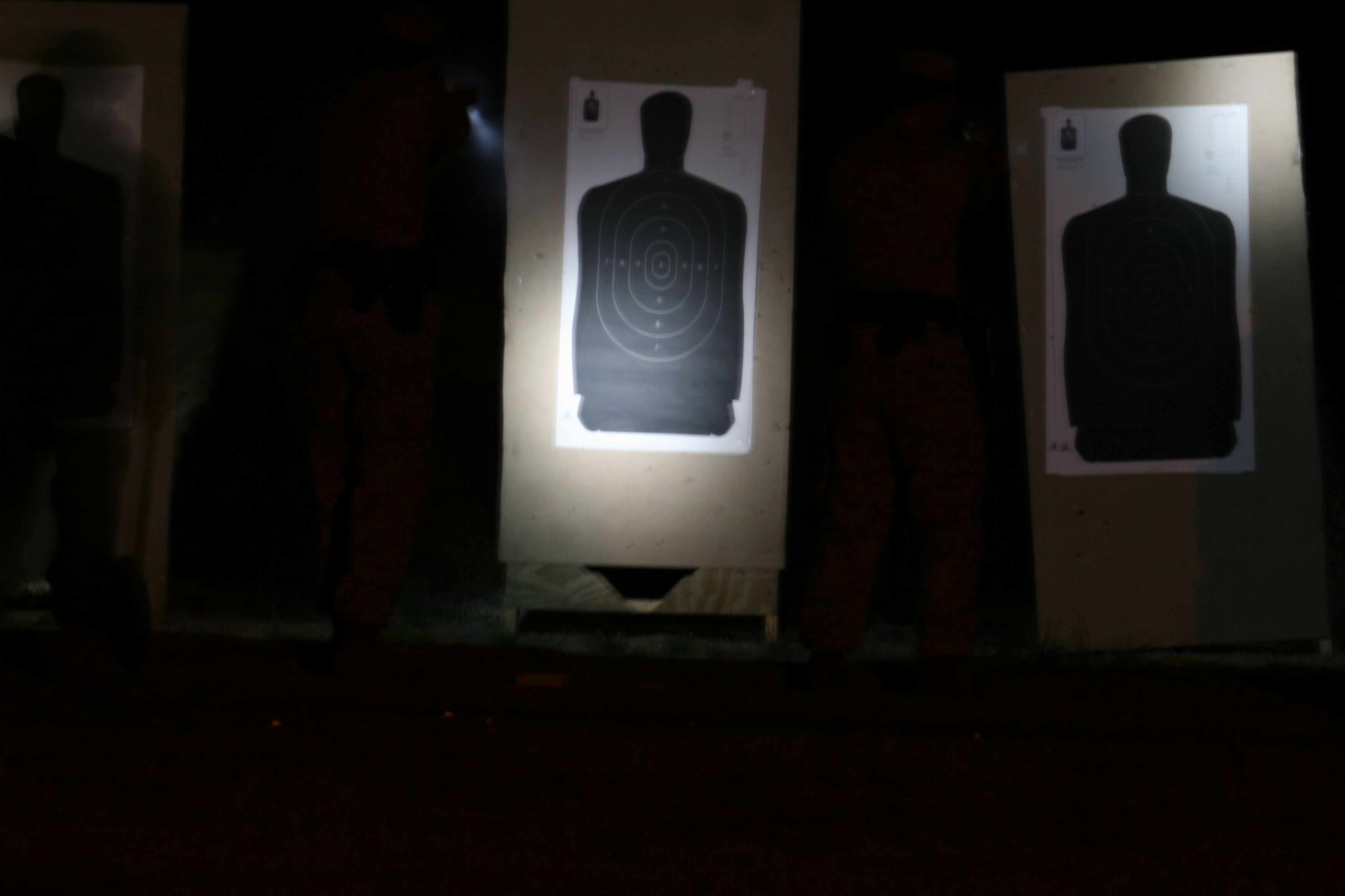 The Marines of the Headquarters and Headquarters Squadron Provost Marshal�s Office use only the light from flashlights to find their targets during annual low-light weapons training conducted at the Station pistol range, Feb. 28.